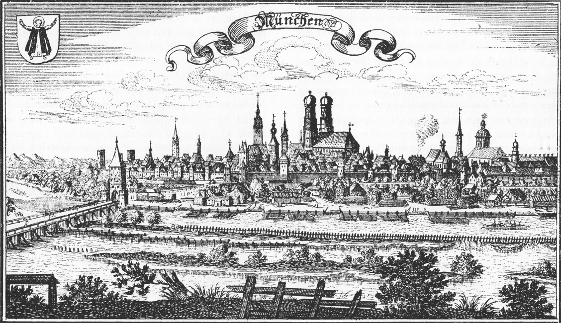 General view of Munich across River Isar